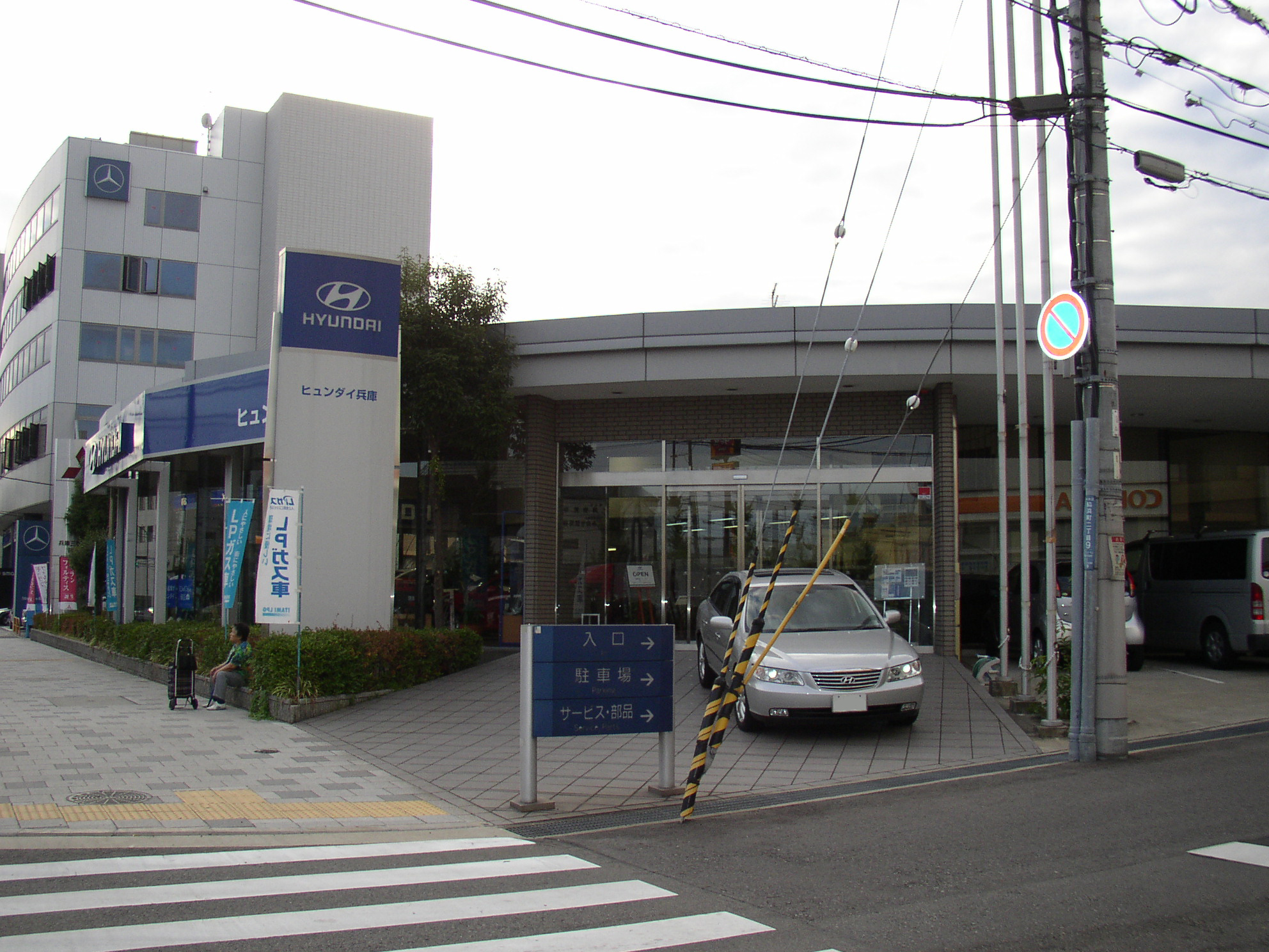 Hyundai Hyogo, Hyundai Motor Japan Authorized dealer by Hyogo Mitsubishi motor sales, Kobe, Hyogo, Japan